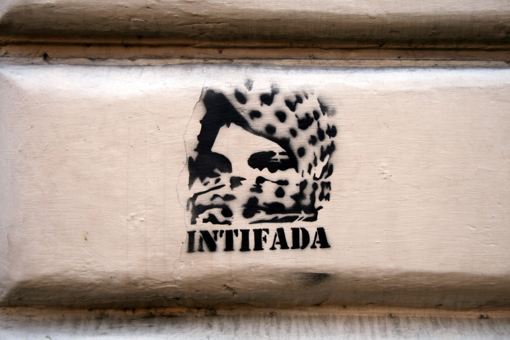 Intifada stencil pictured in Rome, Italy